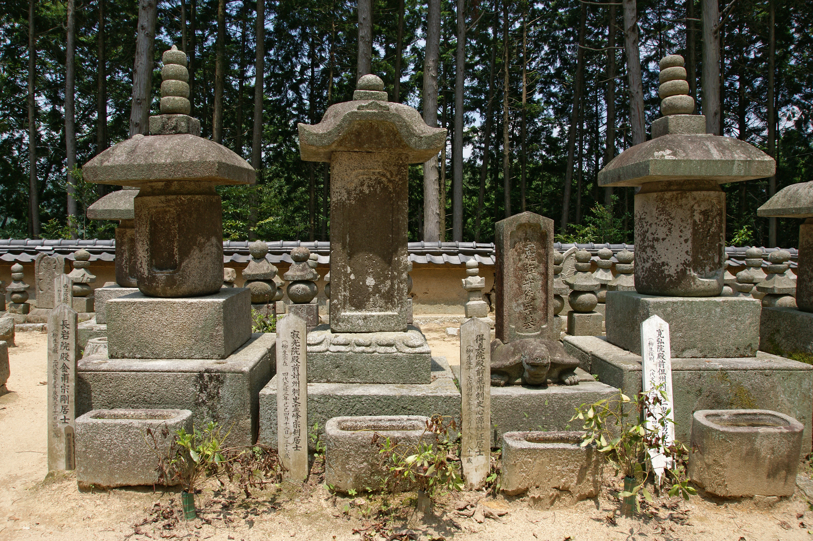 Hotokuji in Nara, Nara prefecture, Japan